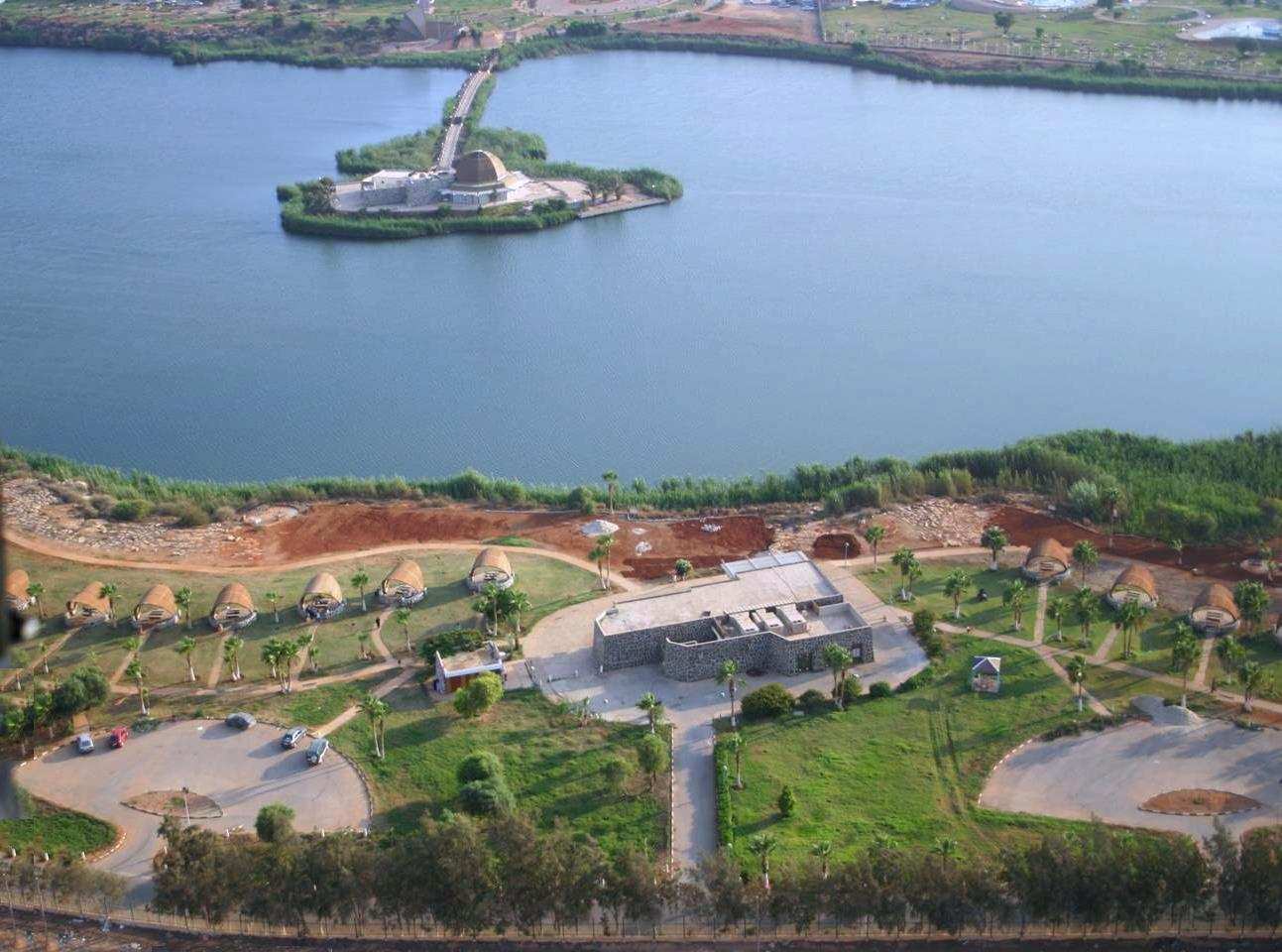 Bodzeera lake park